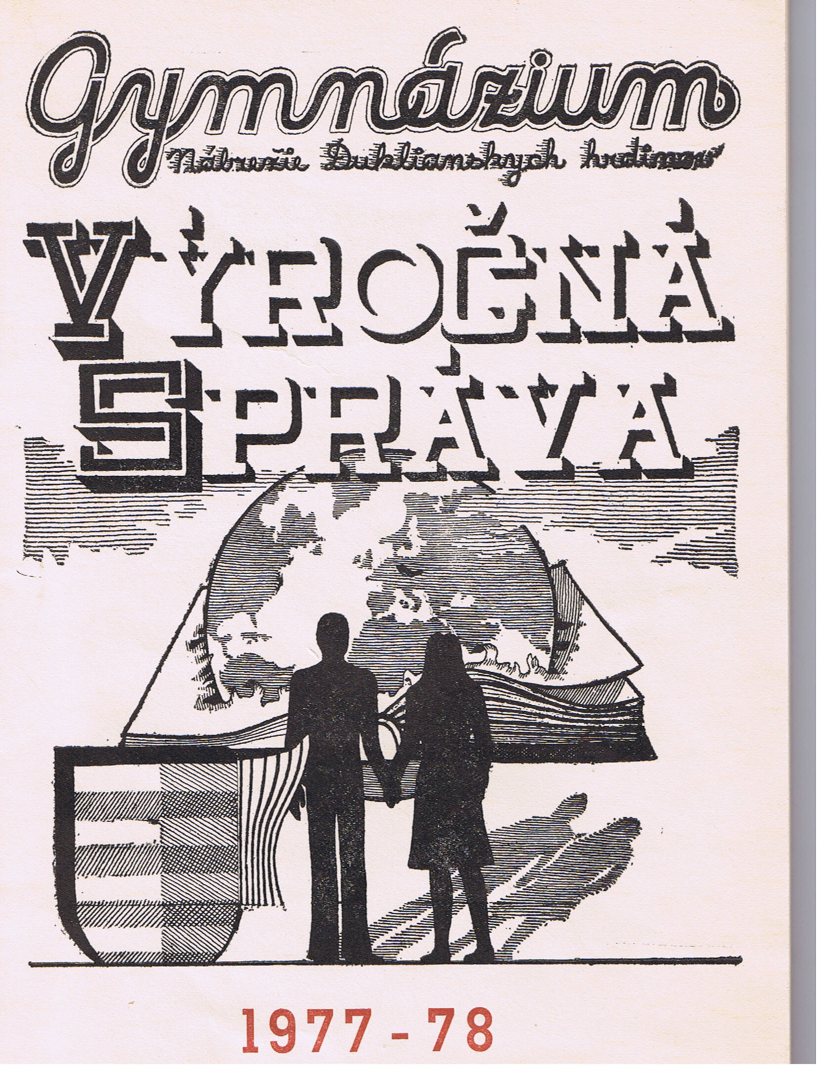 Front page of our school yearbook. NO COPYRIGHT!!!!